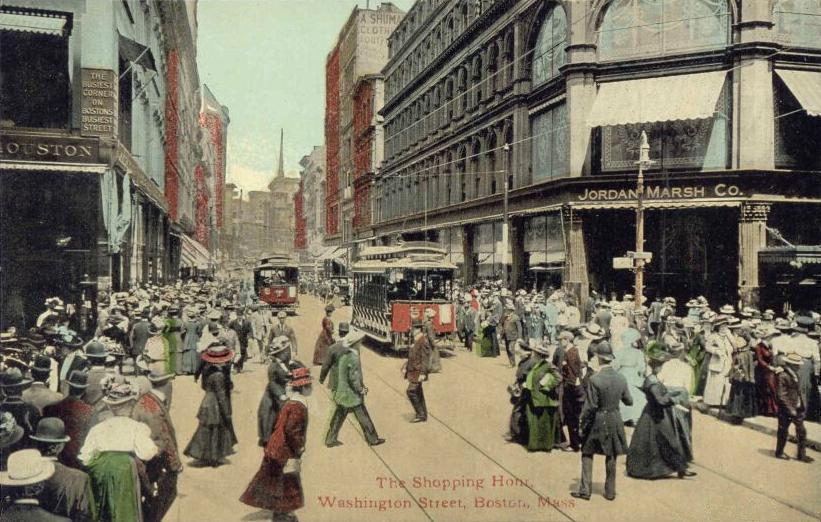 The Shopping Hour, Washington Street, Boston, Massachusetts